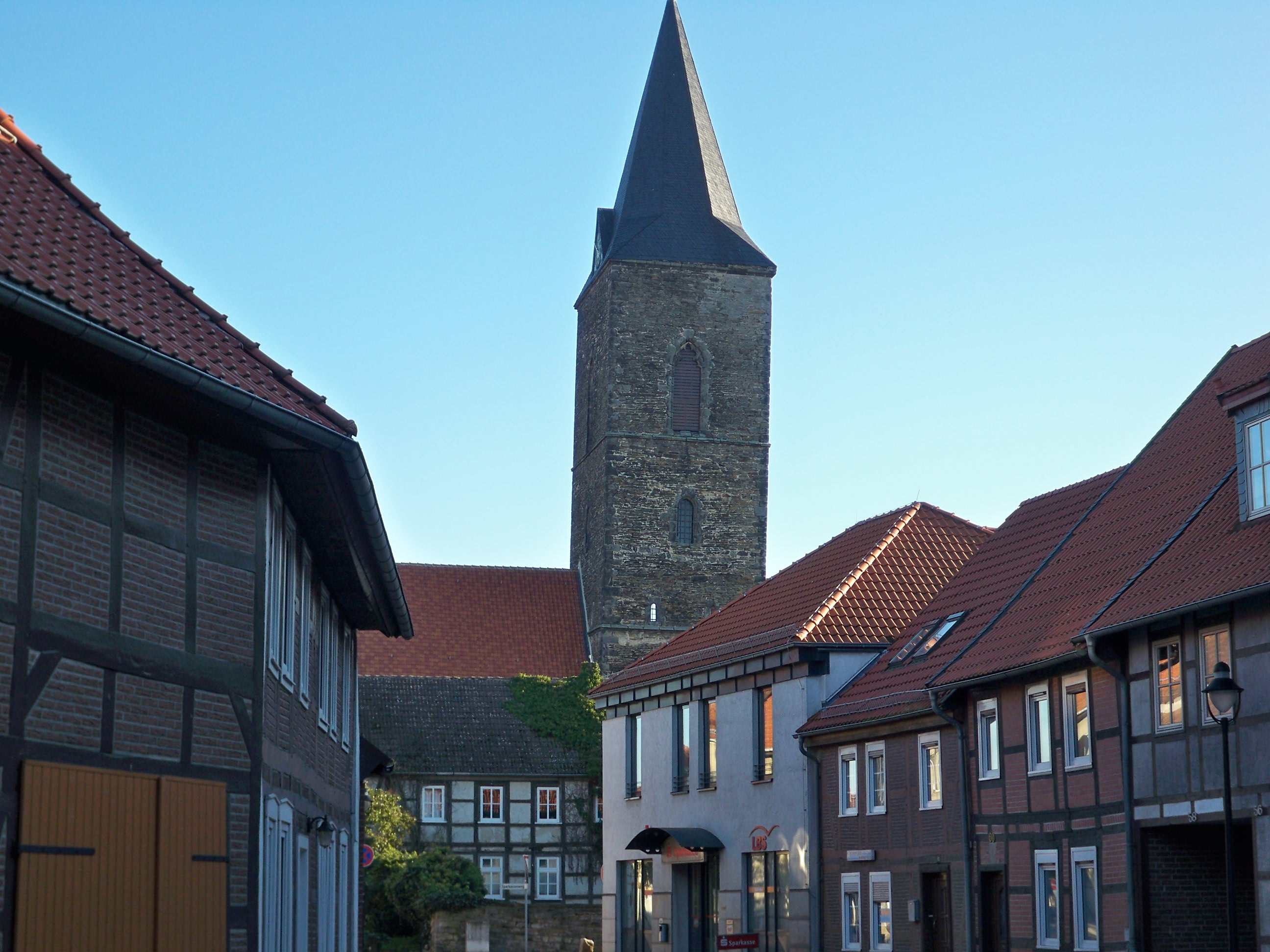 Oebisfelde-Weferlingen, Saxony-Anhalt, Oebisfelde, tower of Katharinenkirche